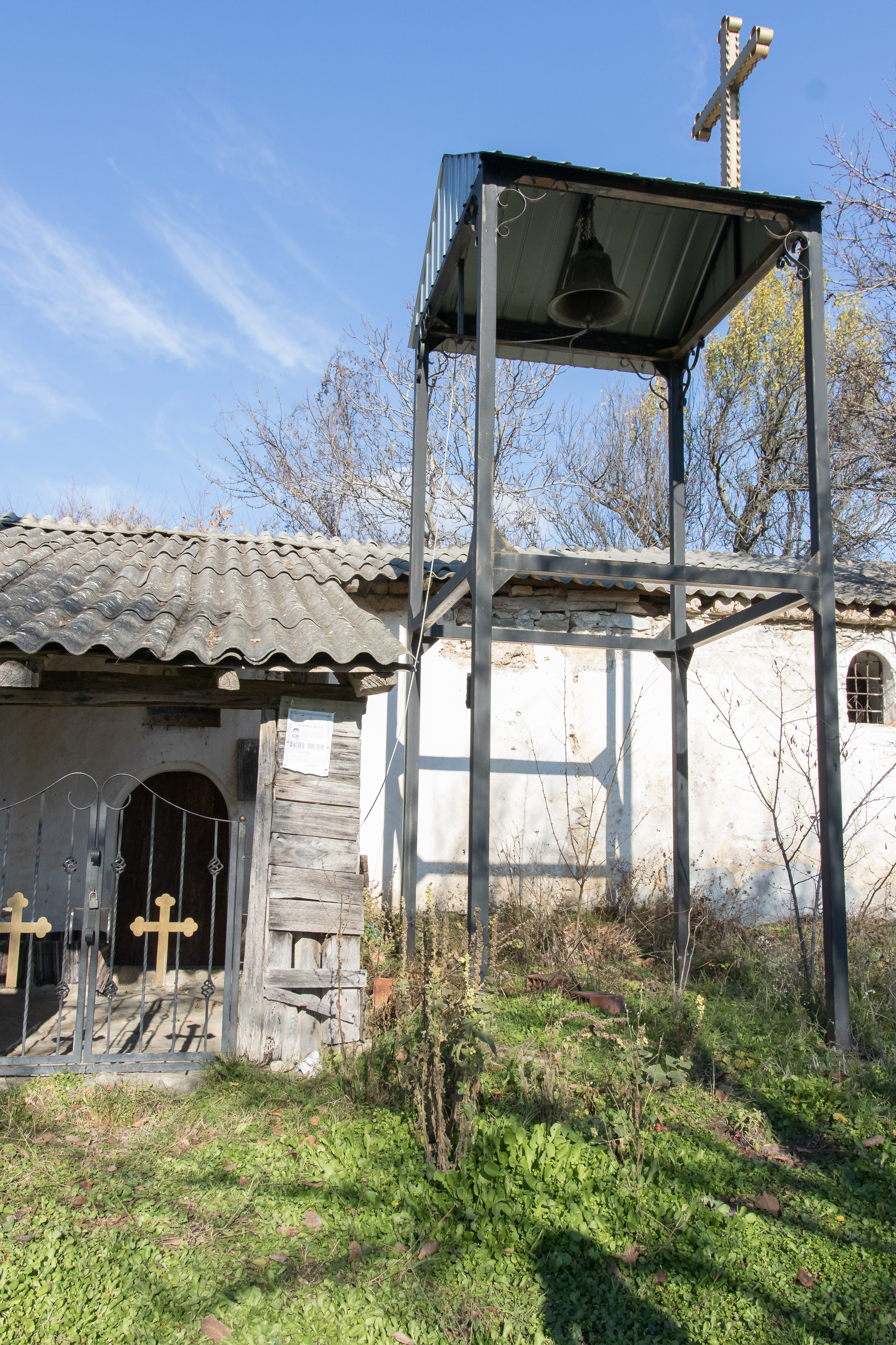 View of the Holy Trinity Church in the village Podles